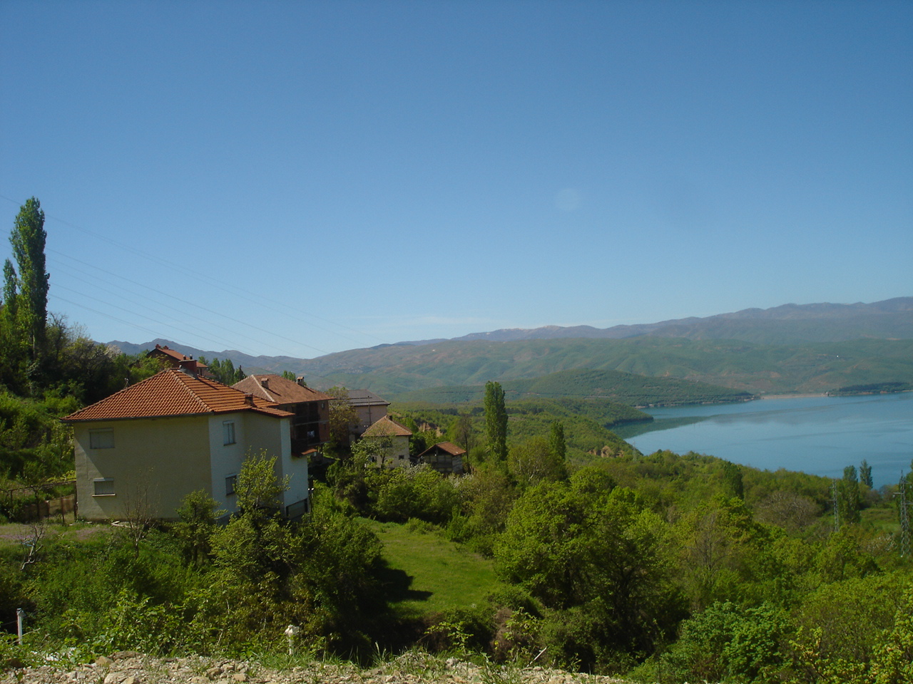 village of Gorenci, near Debar, Macedonia